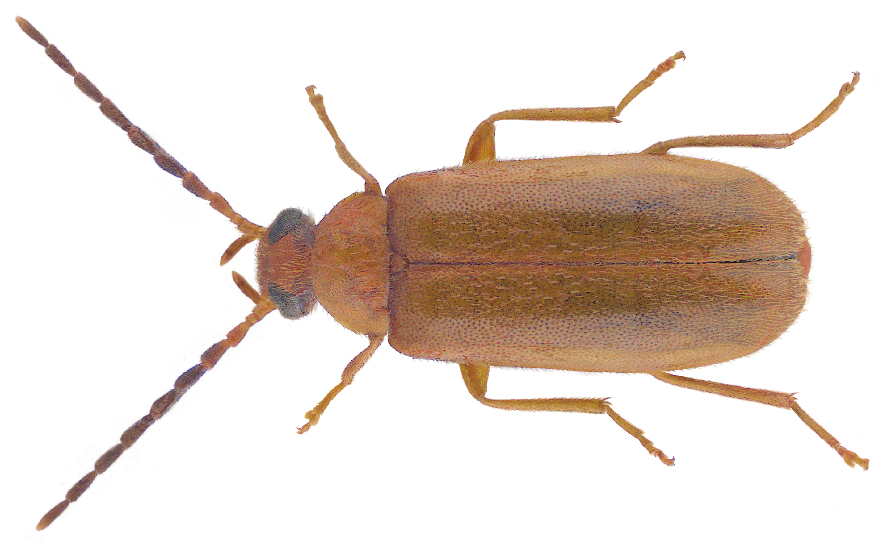 Family: Melandryidae Size: 7.0 mm (5.0 to 7.0 mm) Origin: Europe Ecology: Develops in the branches of oaks and beeches Location: Germany, Bavaria, Upper Franconia, Kulmbach, Blaicher Berg leg.det. U.Schmidt, 16.VI.1976 Photo: U.Schmidt, 2017